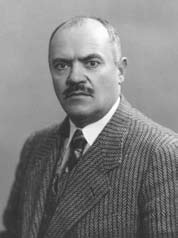 Besim Atalay